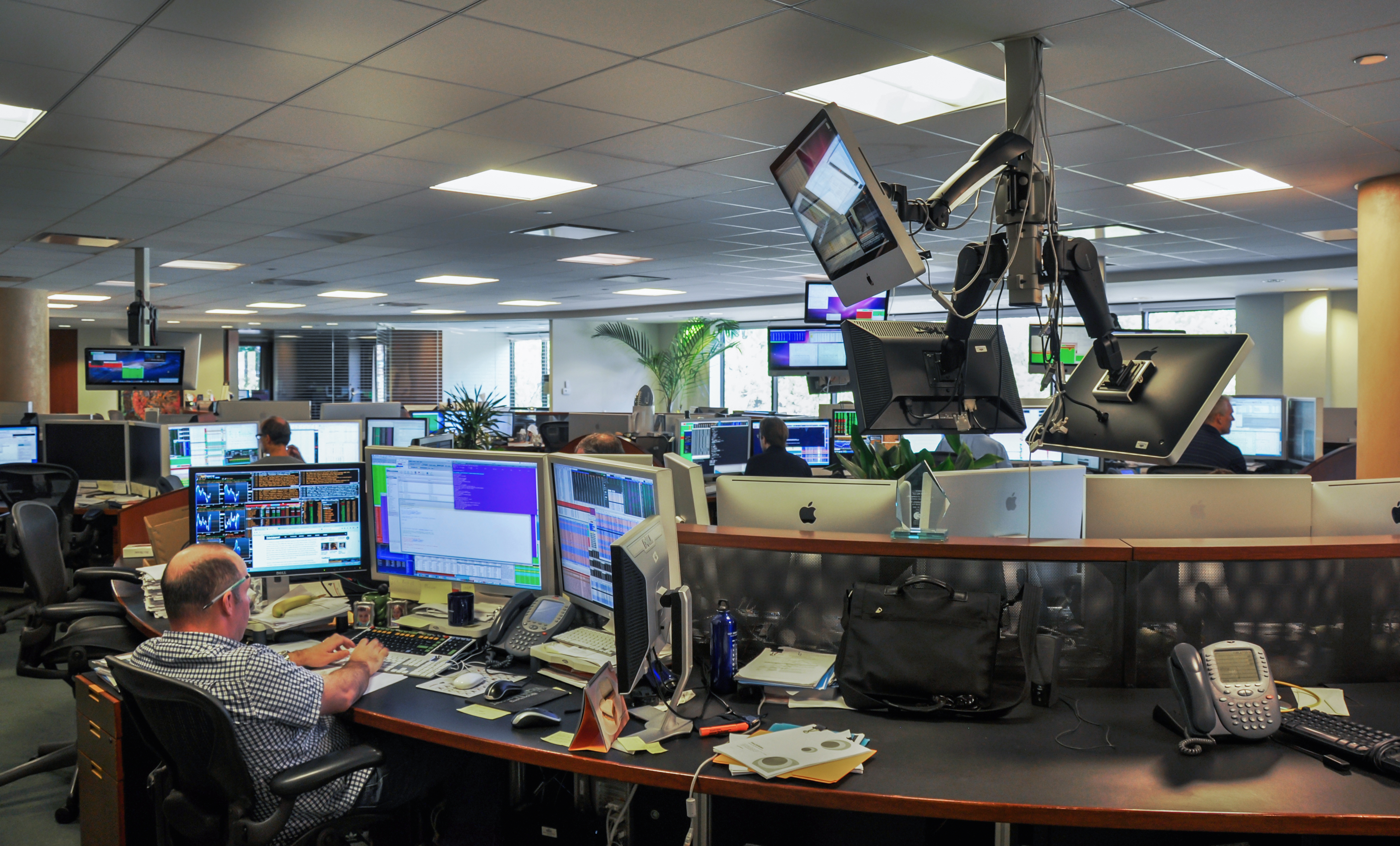 Taken at Interactive Brokers. I took this photo myself, on July 18, 2014, with my Nikon D90 camera.